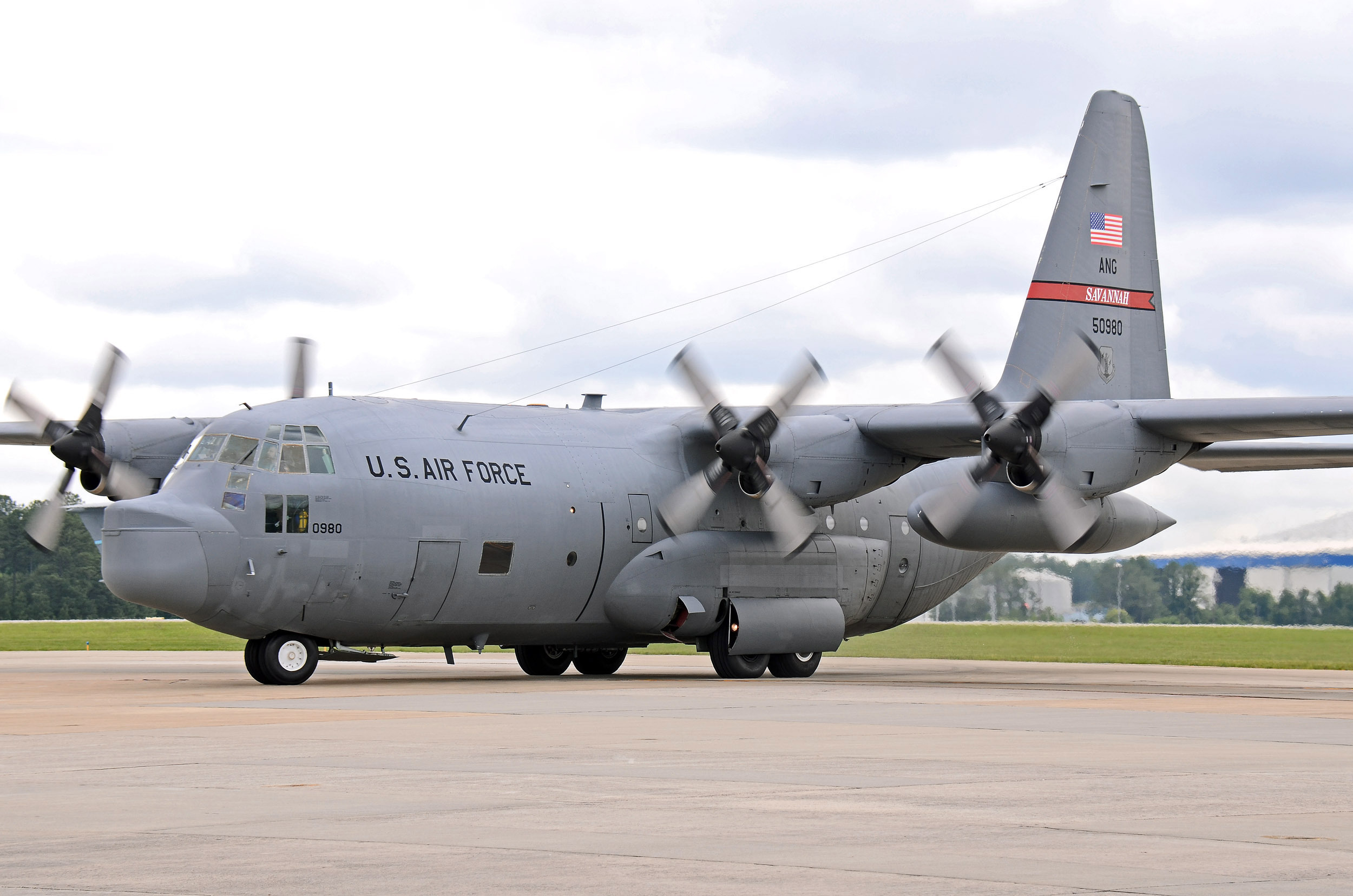 A U.S. Air Force C-130 Hercules aircraft assigned to the 165th Airlift Wing (AW), Georgia Air National Guard taxis in from the runway at Dobbins Air Reserve Base (ARB), Ga., June 6, 2013. The 165th AW evacuated three C-130s from Savannah, Ga., to Dobbins ARB to avoid the path of Tropical Storm Andrea.